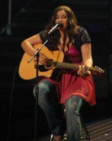 Jordin Sparks performing You Were Meant For Me by Jewel at the Pop-Tarts sponsored American Idols Live Tour 2007 in Sunrise, Fl